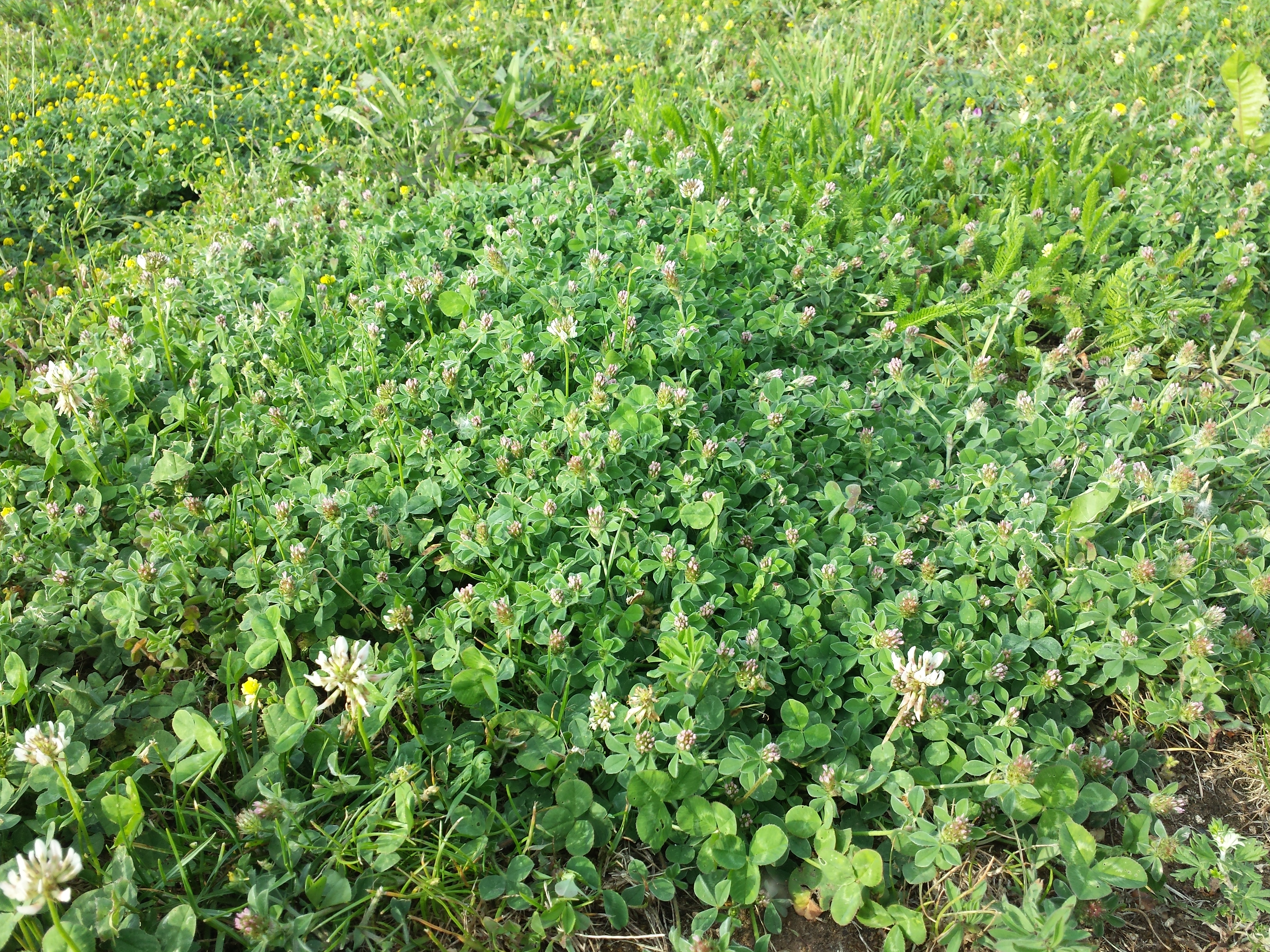 Habitus Taxonym: Trifolium striatum ss Fischer et al. EfÖLS 2008 ISBN 978-3-85474-187-9 Location: Korneuburg rail station, district Korneuburg, Lower Austria - ca. 170 m a.s.l. Habitat: ruderal lawn